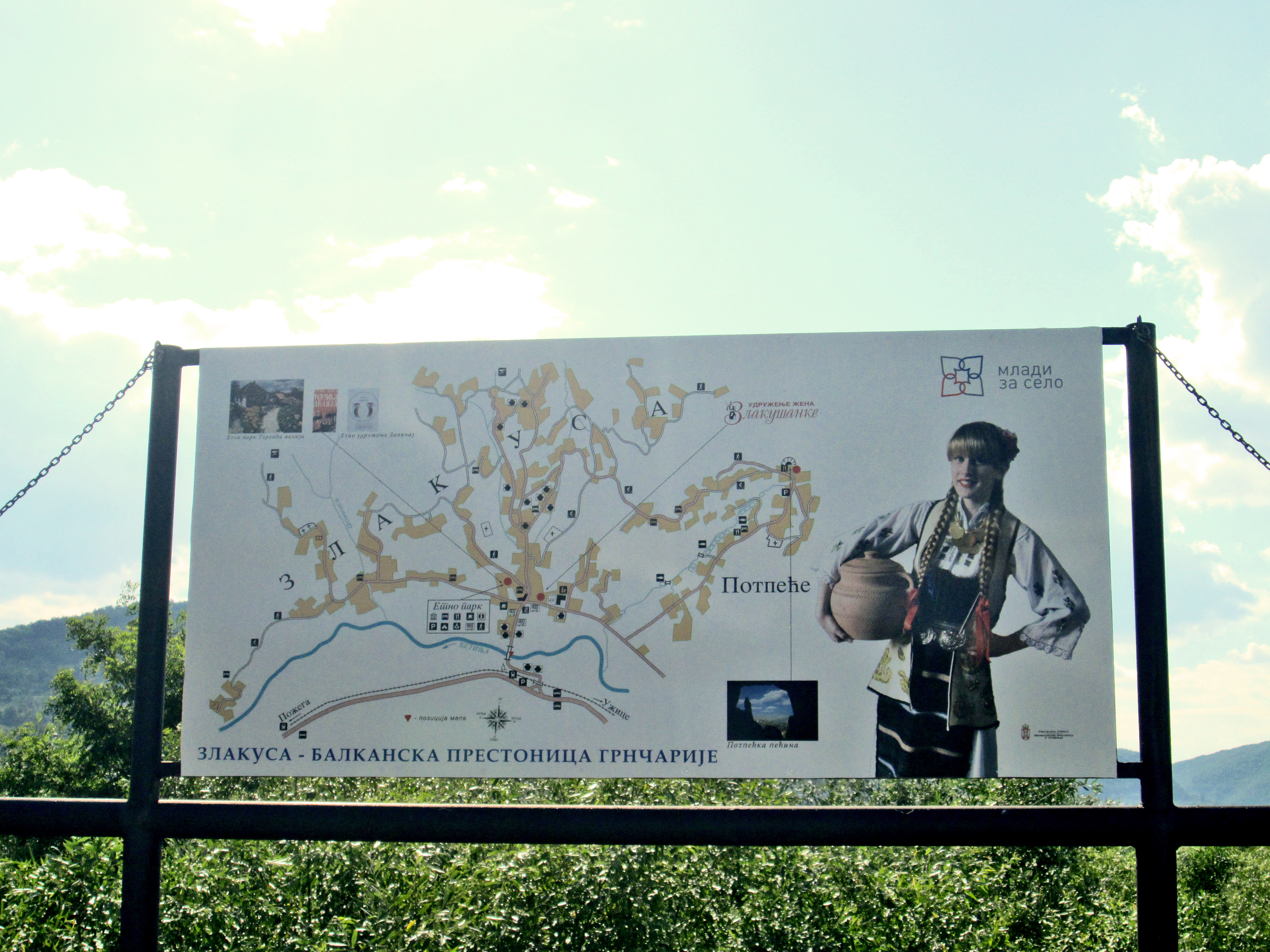 Billboard, ZlakusaСрпски (ћирилица): Билборд, Злакуса